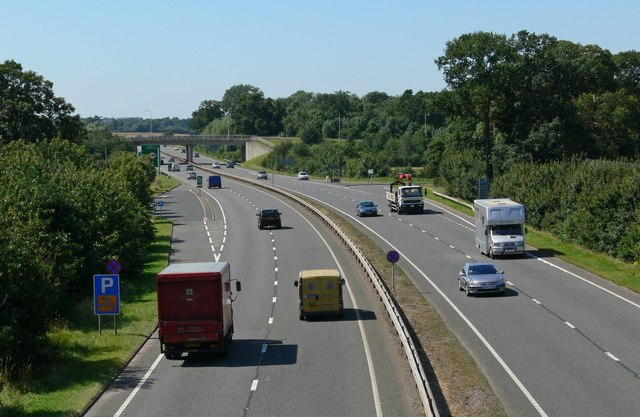 A6 north of Quorn Follow this road for Loughborough.